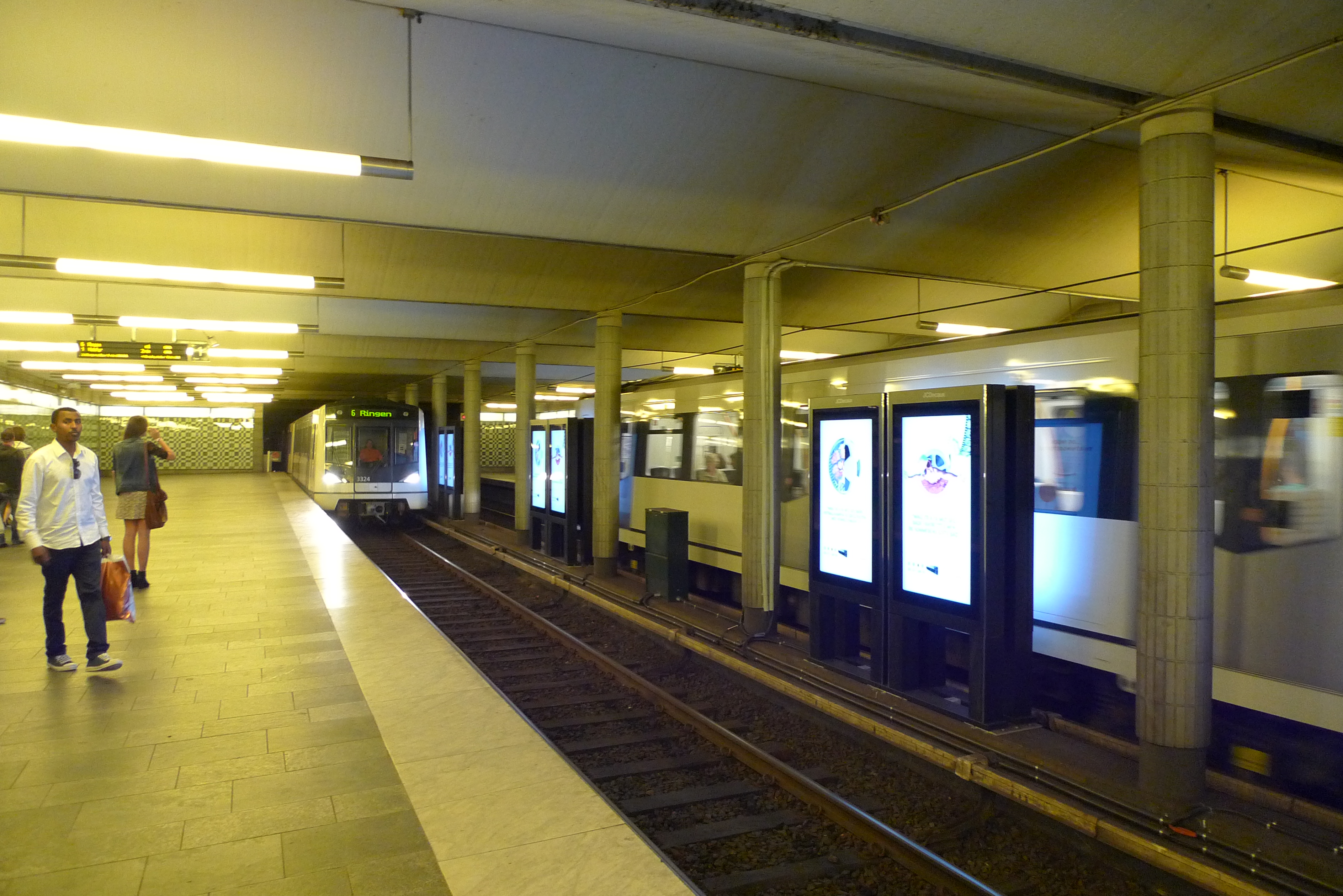 Subway coming in at Jernbanetorget subway station.